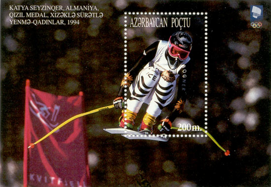 Stamp of Azerbaijan